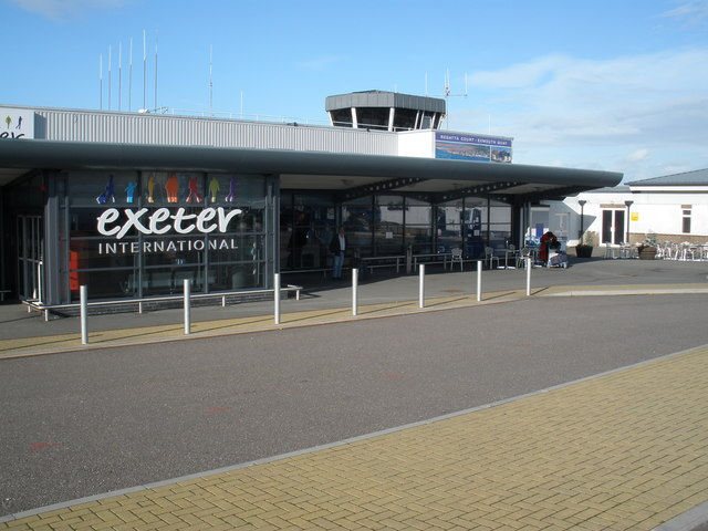 Exeter International Airport The main departure terminal.